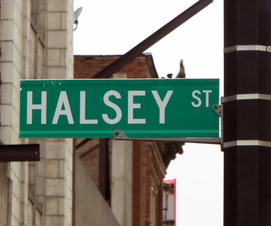 HalseyStreet, Newark street sign